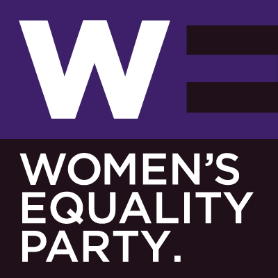 Logo of the UK Women's Equality Party